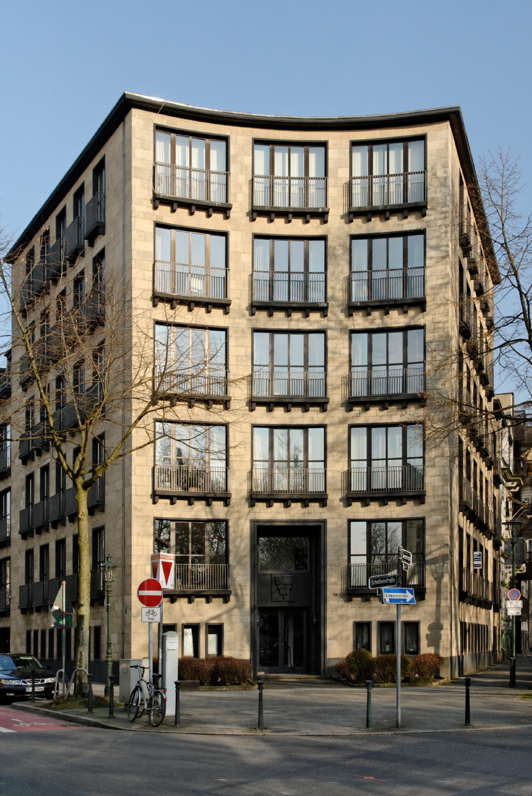 Kopfhaus in Düsseldorf-Pempelfort, Germany